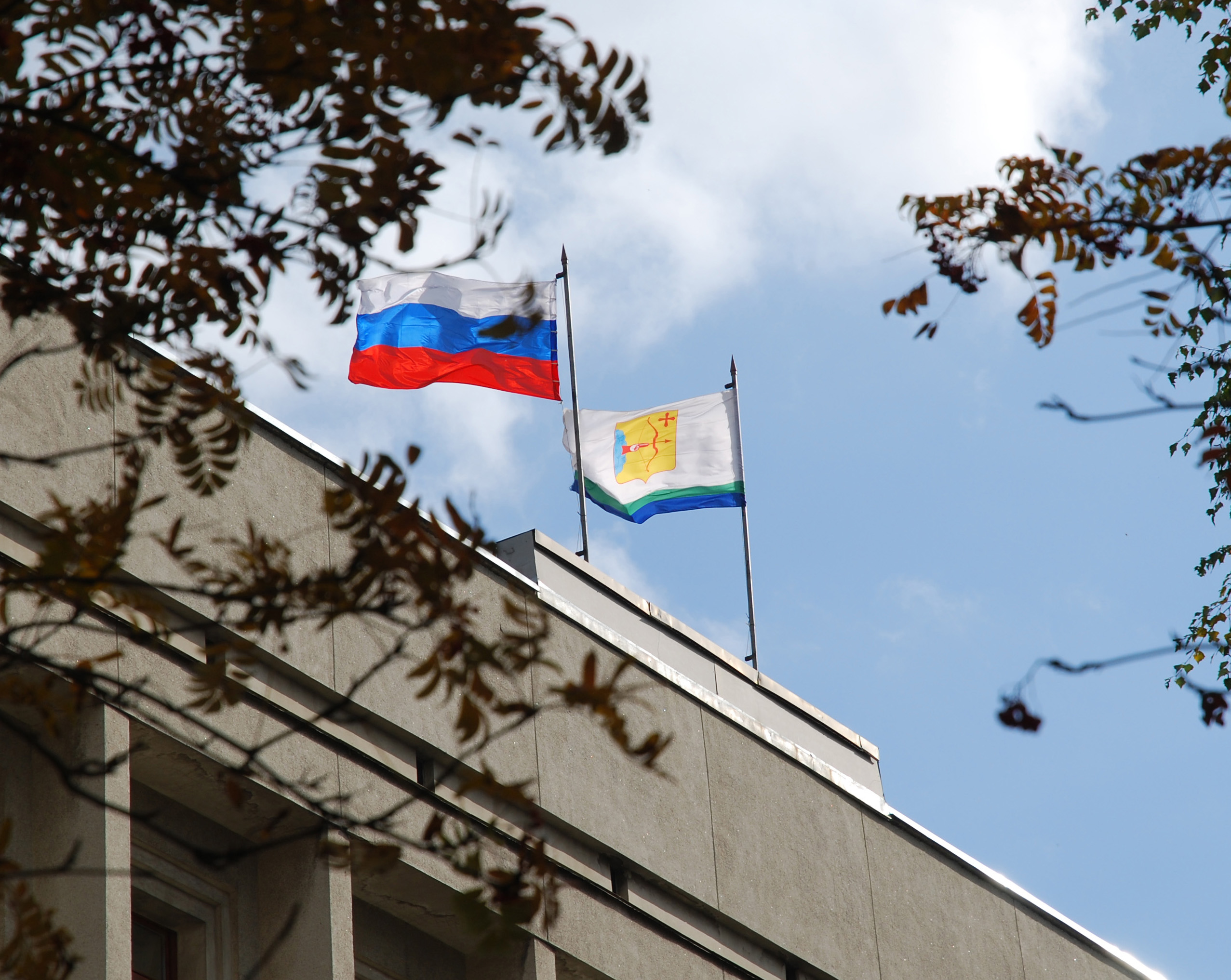 Flag of the Kirov region on a building of the government of region